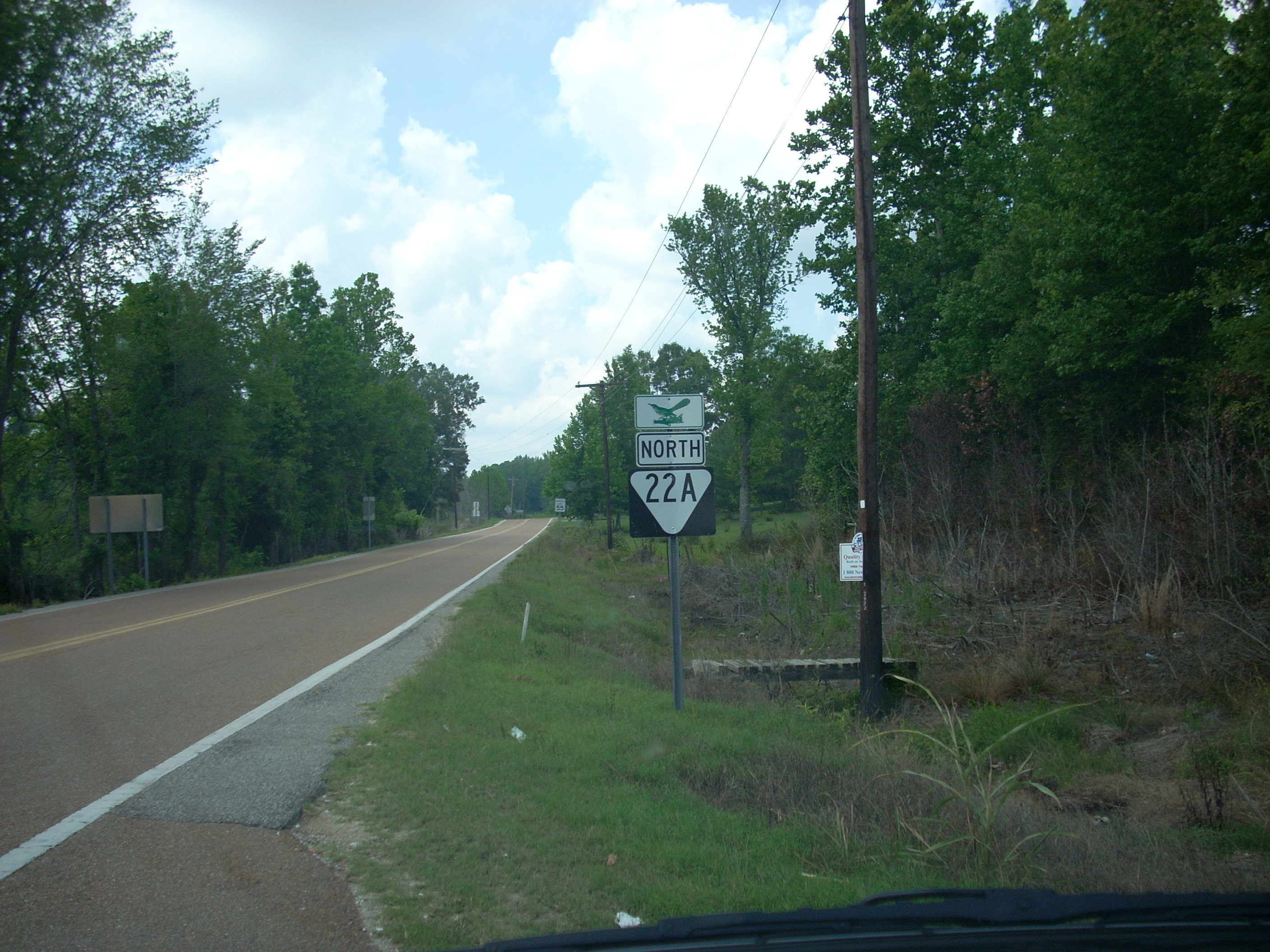 Tennessee Secondary State Route 22A shield at Jacks Creek, TN.